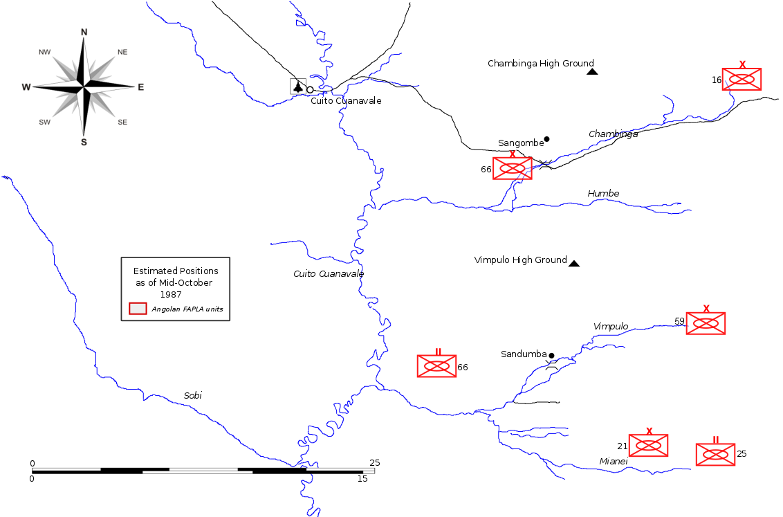 FAPLA Brigade positions after the Lomba River retreat October 1987